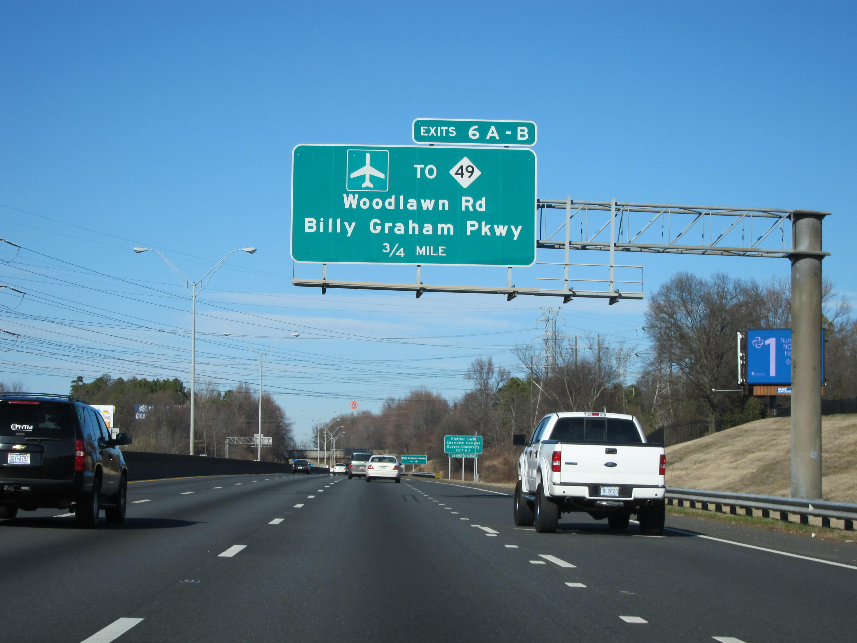 Northbound I-77/US 21 Overhead sign for Woodlawn Road and Billy Graham Parkway, in Charlotte, North Carolina.